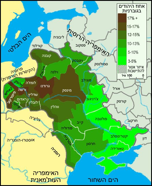 Pale of Settlement map.